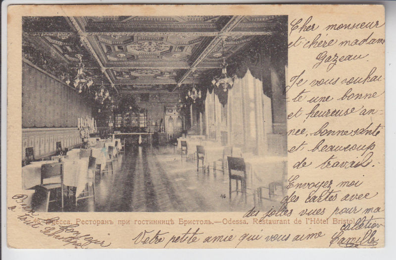 Photo of interior of restaurant in Bristol Hotel in Odessa, Russian Empire. Early 1900-s